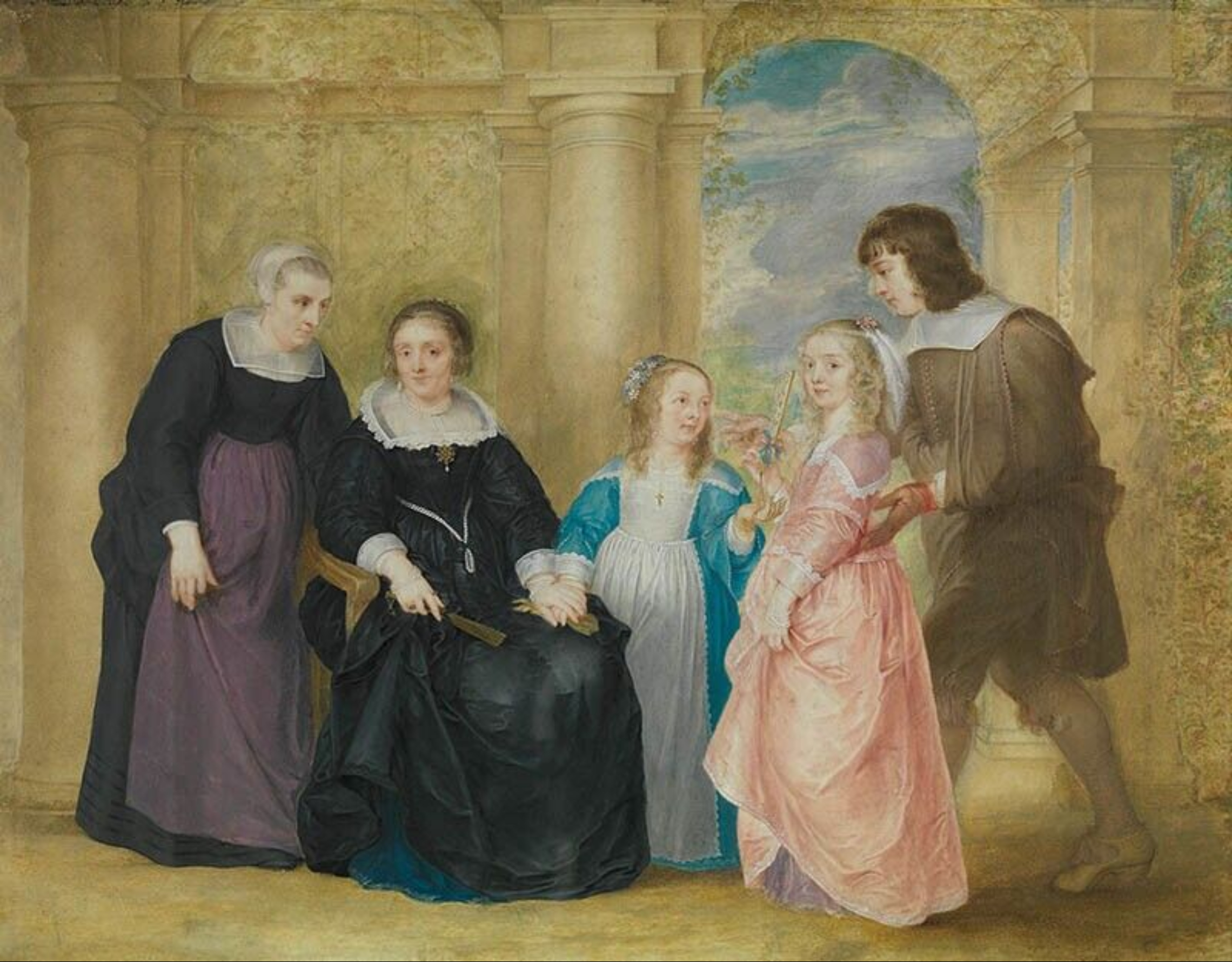 Philip Fruytiers, Portrait of a Family, watercolor on parchment, 33 x 48 cm, Royal Museum of Fine Arts Antwerp